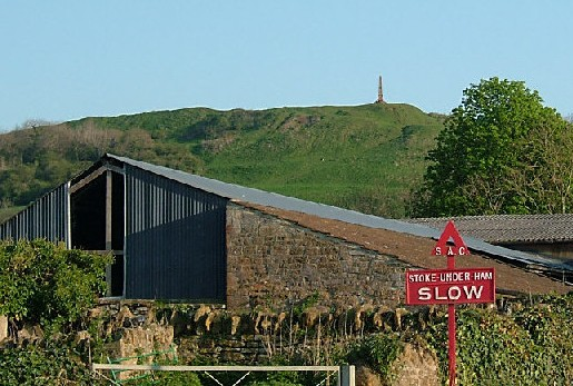 An evening view of Ham Hill from North St in Stoke sub Hamdon